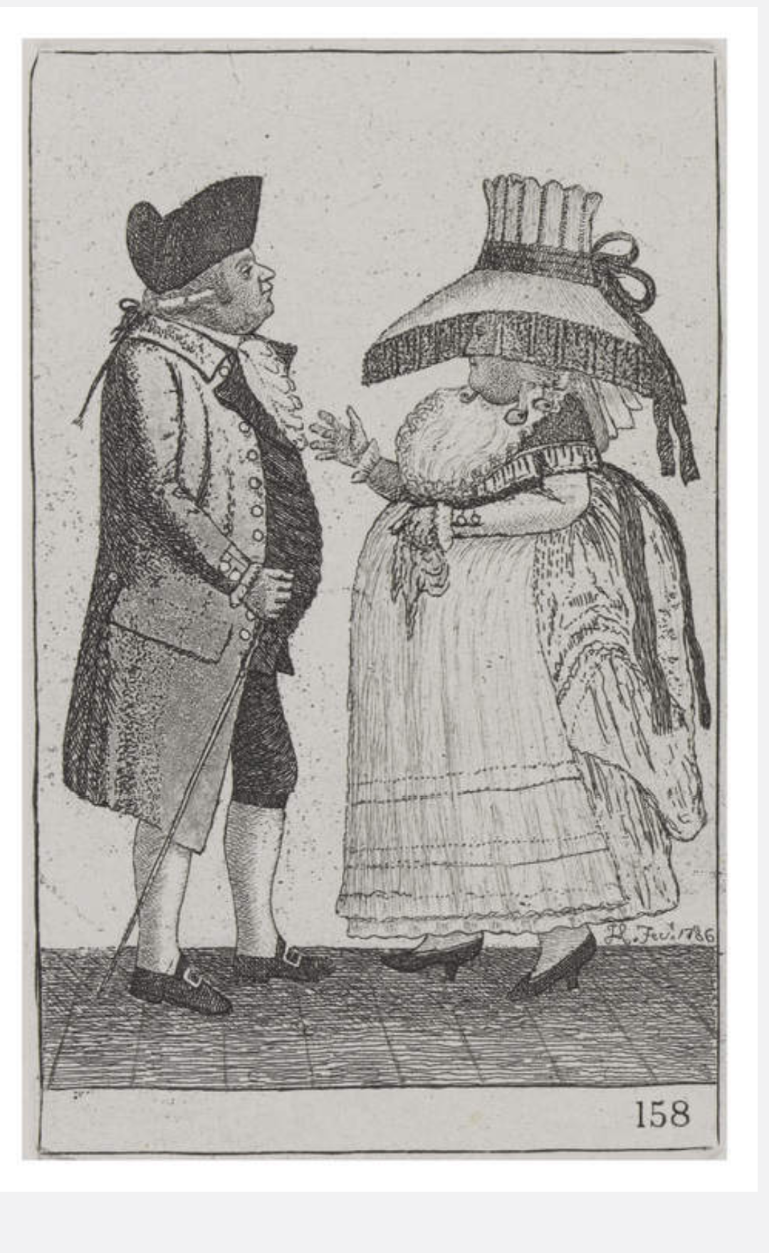 Robert Johnston and Sibilla Hutton caricature by John Kay. Copperplate engraving by John Kay from A Series of Original Portraits and Caricature Etchings, Hugh Paton, Edinburgh, 1842